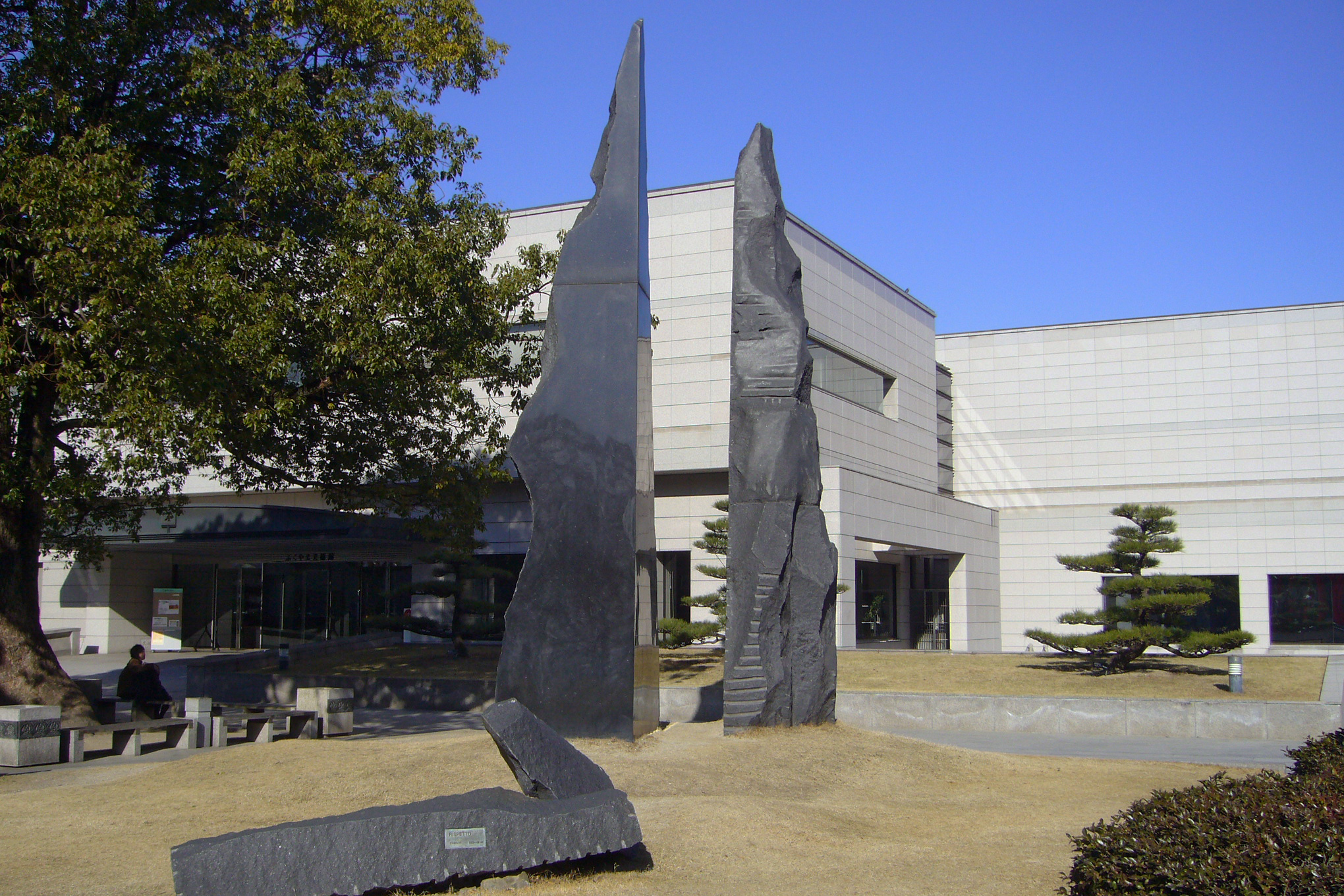 Fukuyama Museum of Art in Fukuyama, Hiroshima prefecture, Japan